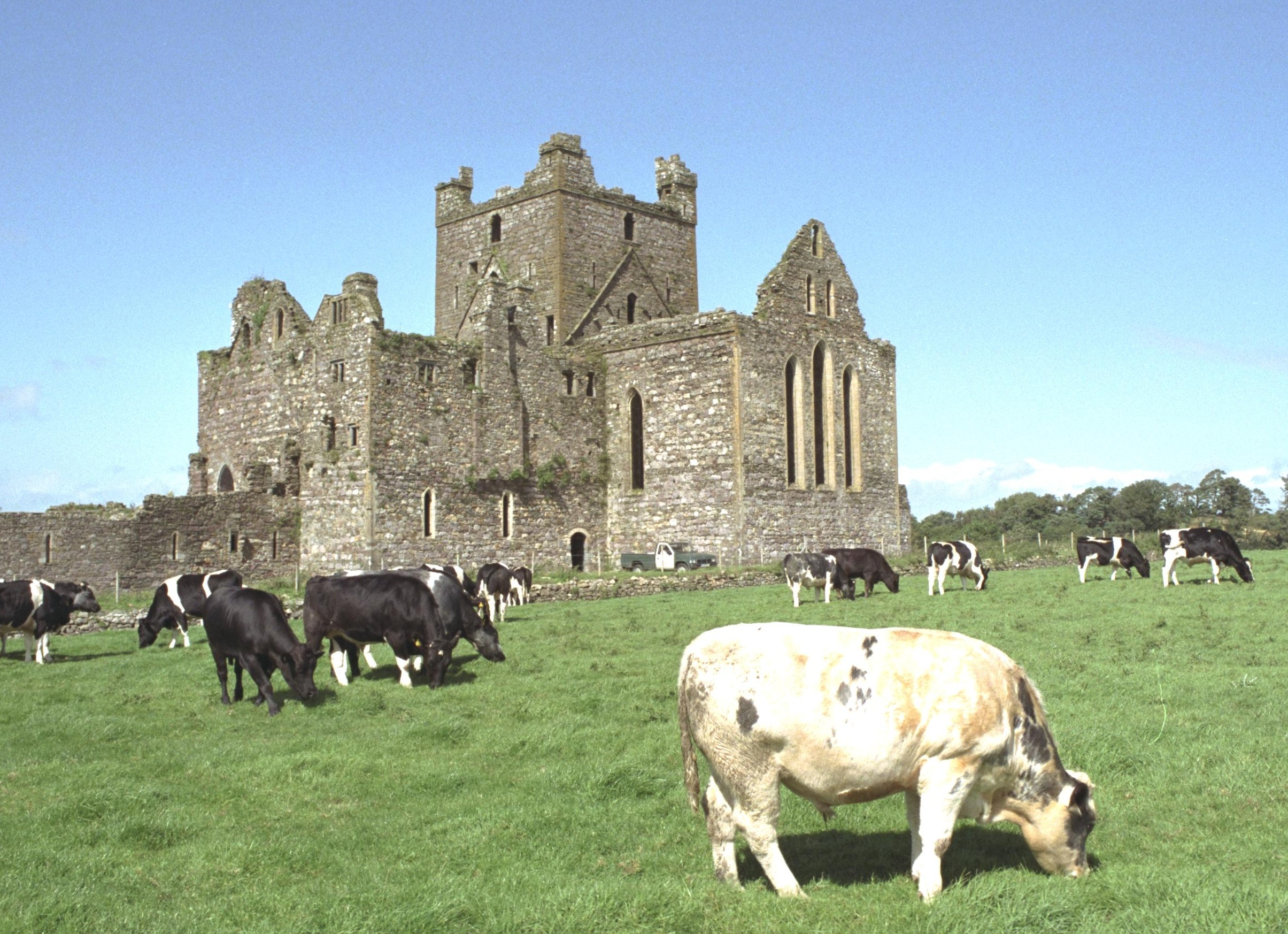 Dunbrody Abbey, County Wexford, Ireland South-east view of Dunbrody Abbey with young bulls in the front.